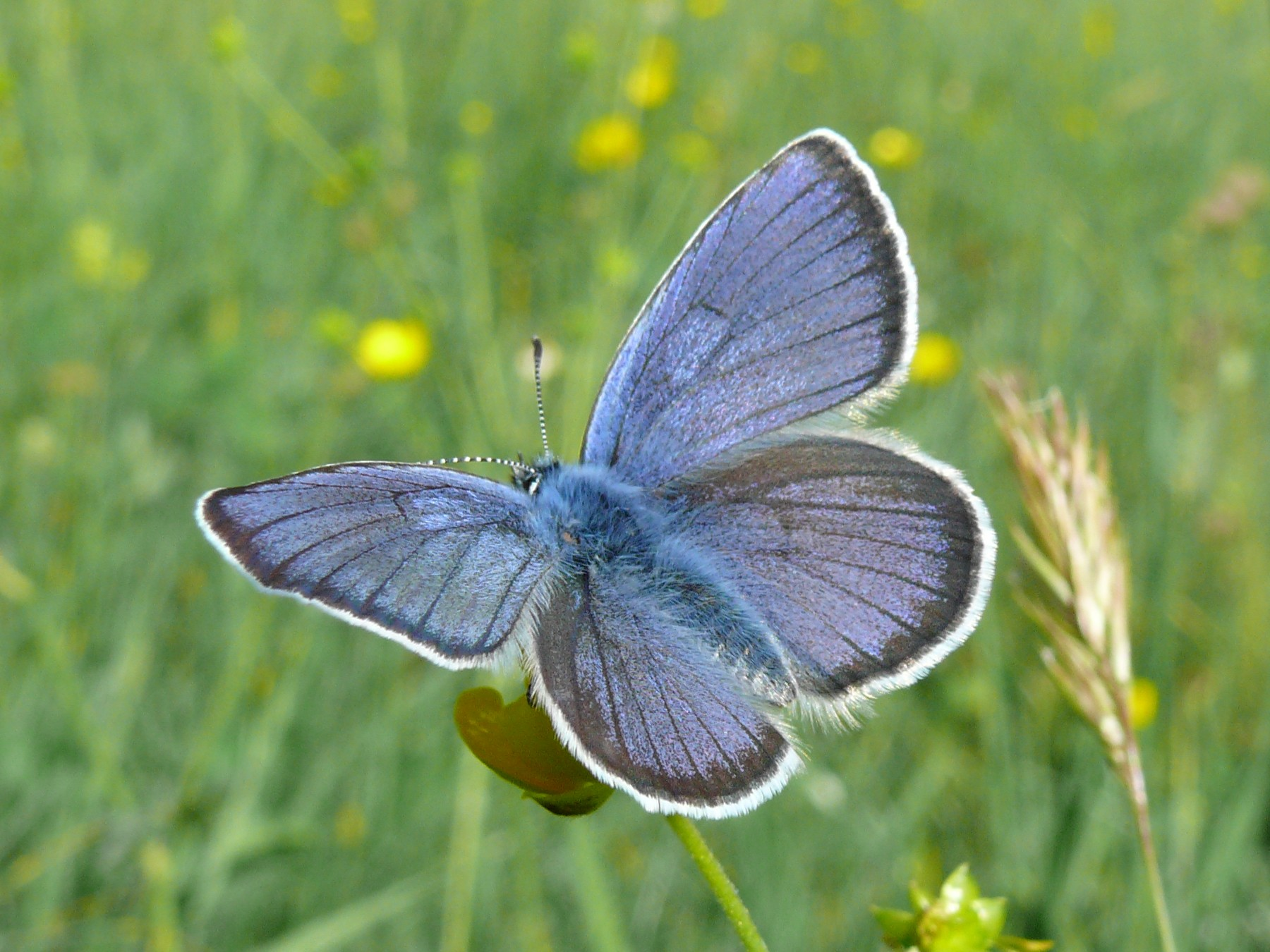 male Mazarine Blue, Eisacktal, South Tyrol